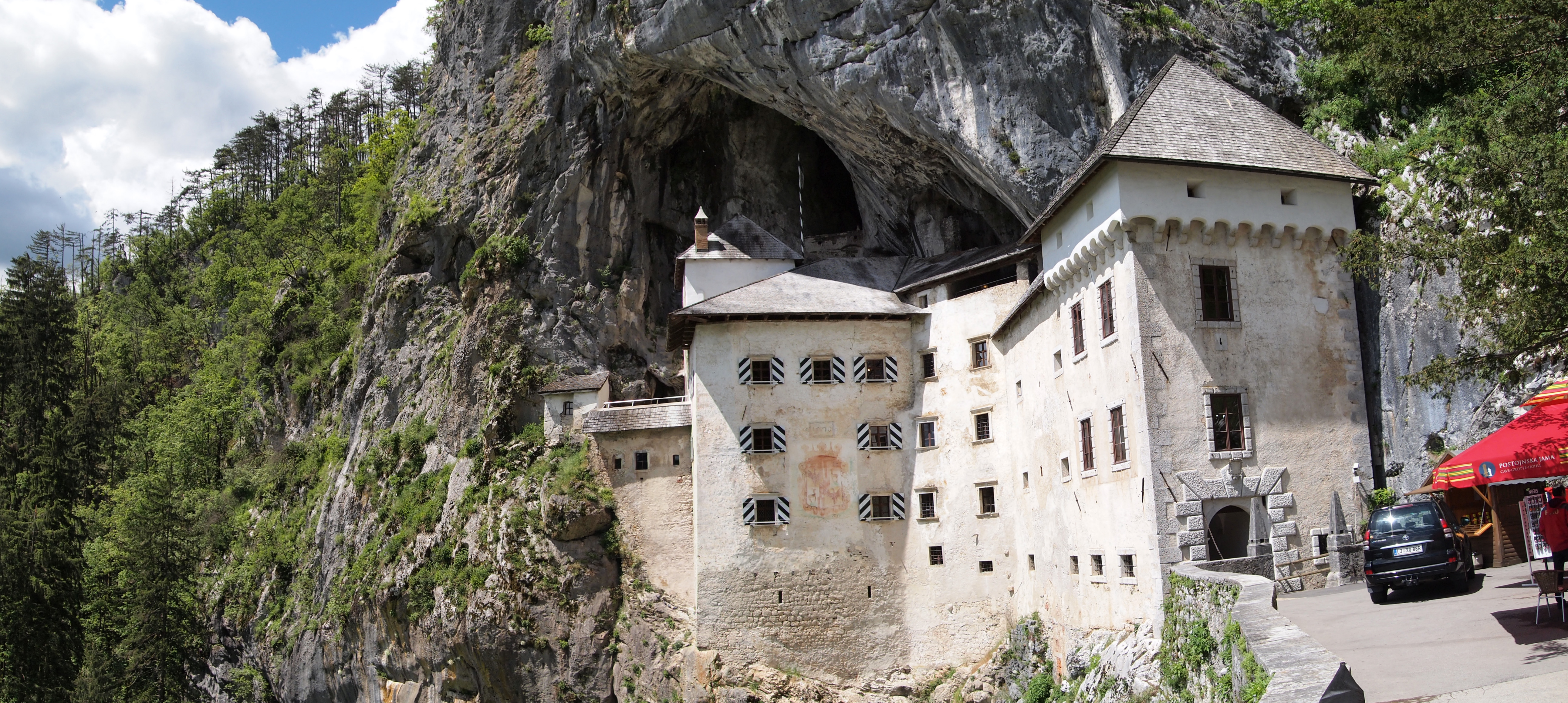 Predjama Castle. This photograph was taken with an Olympus E-PL1